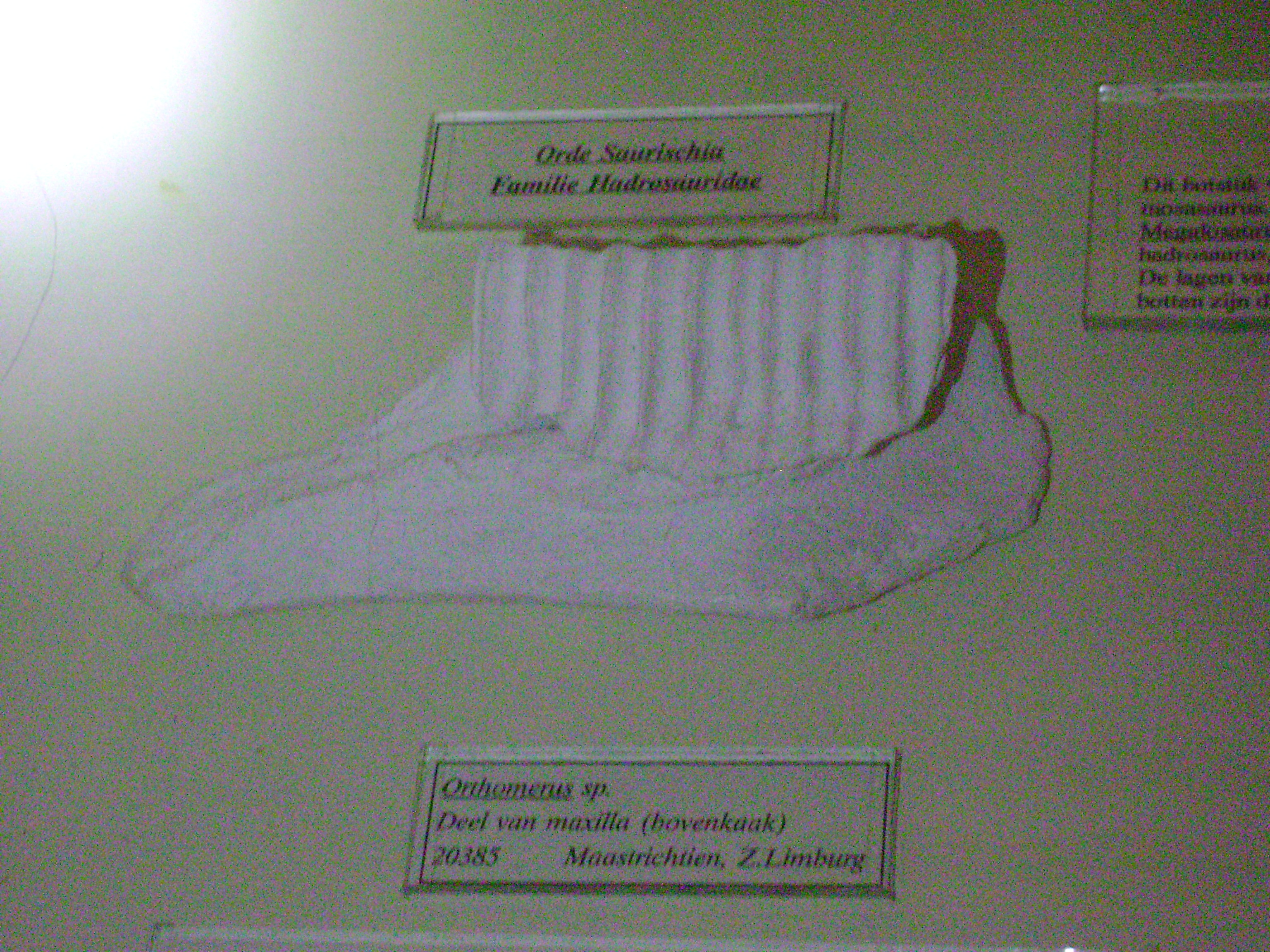 Cast of a maxilla possibly belonging to Orthomerus, at the Teylers Museum, Haarlem